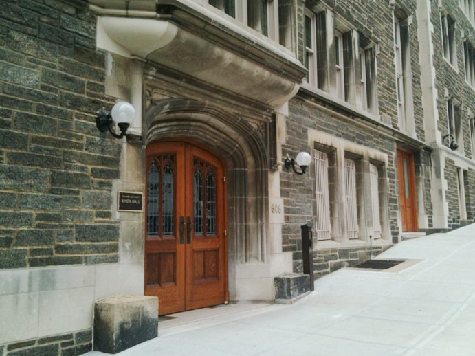 Knox Hall on West 122nd Street, New York, NY